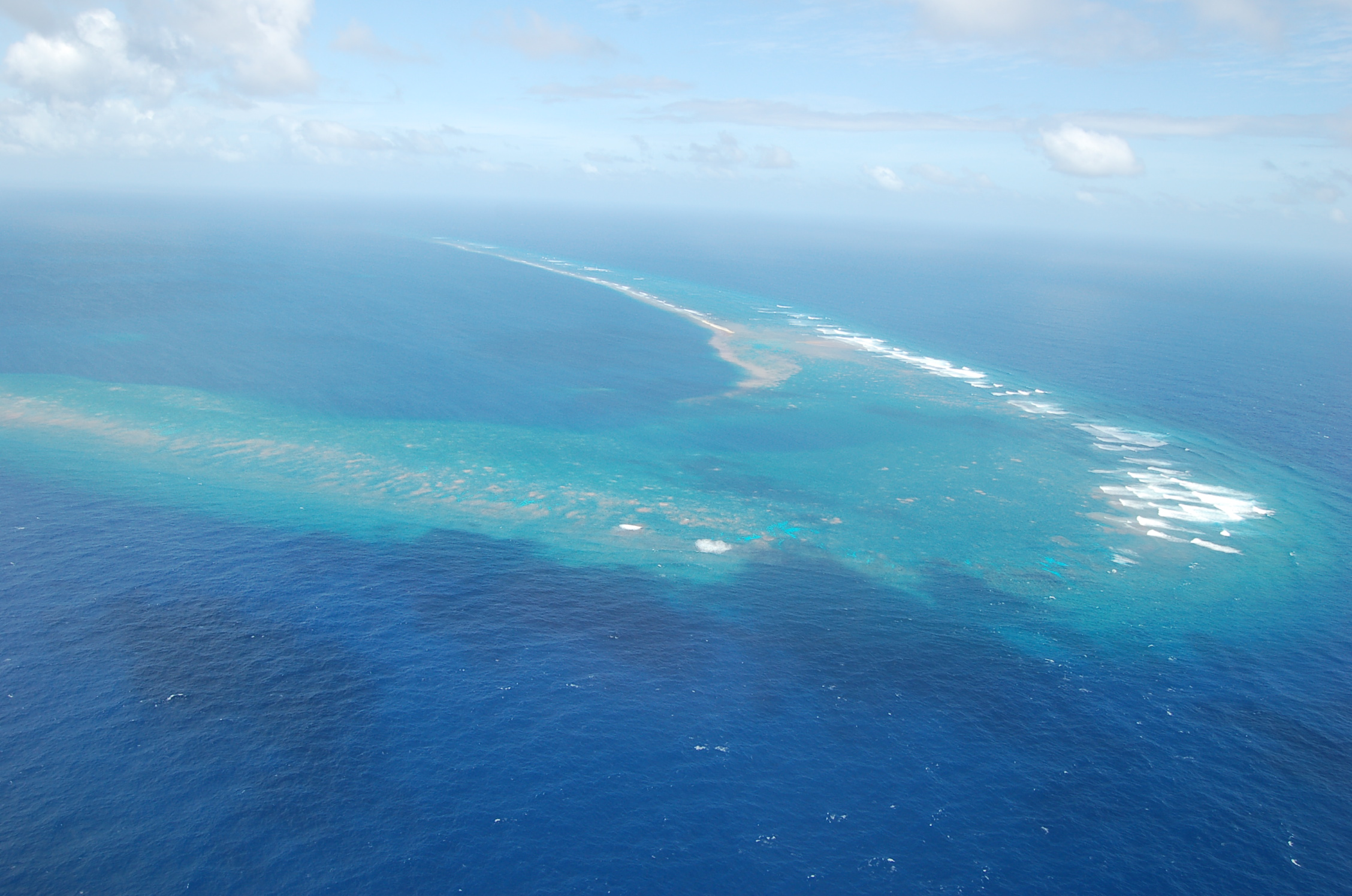 Kingman Reef NWR. Photo credit: Susan White/USFWS. The largest of two spits of dry land is shown in the upper center of the photo as a short white diagonal line segment on the edge of the lagoon.